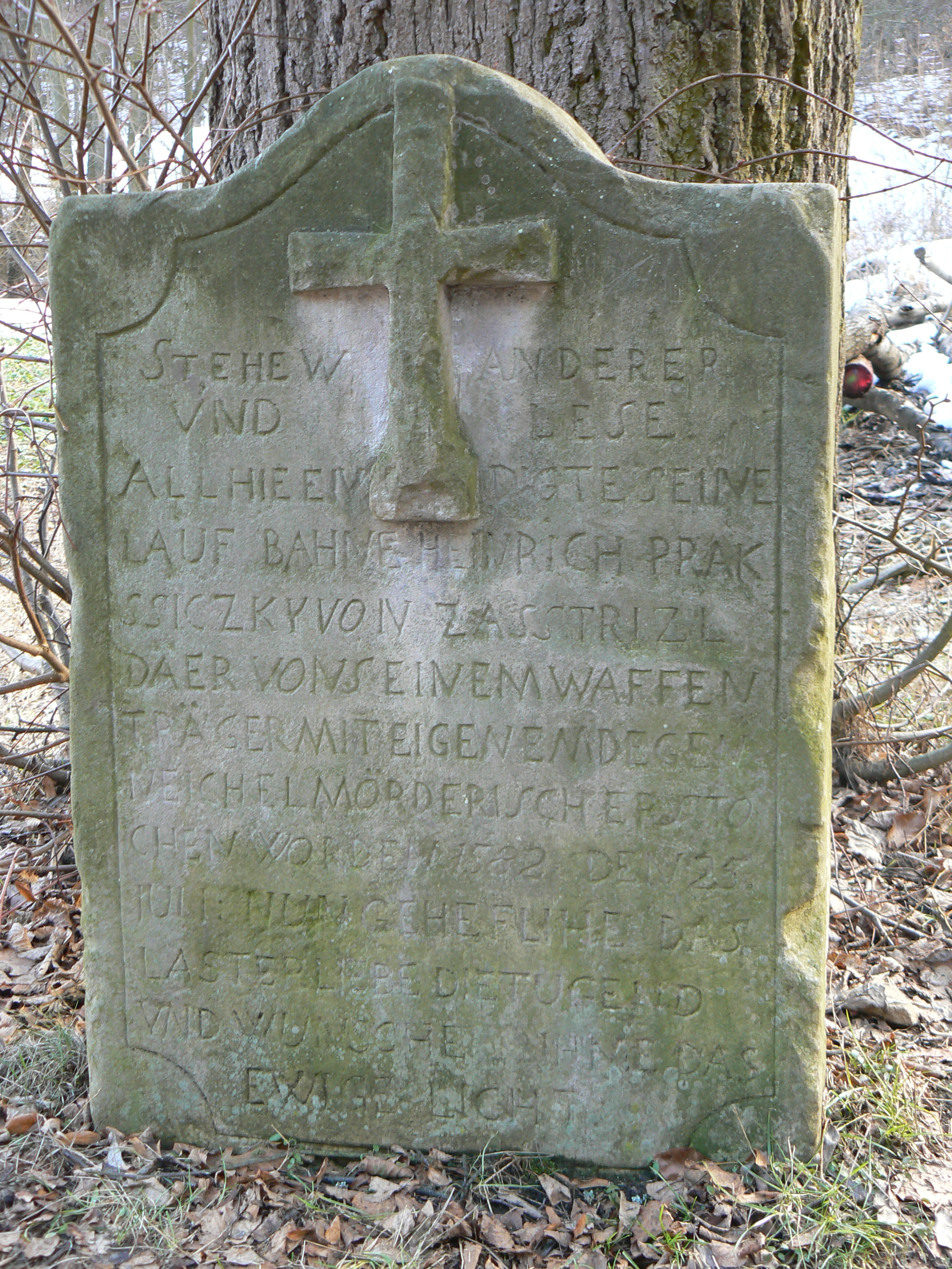 The monument "U Zabitého" near Smraďavka